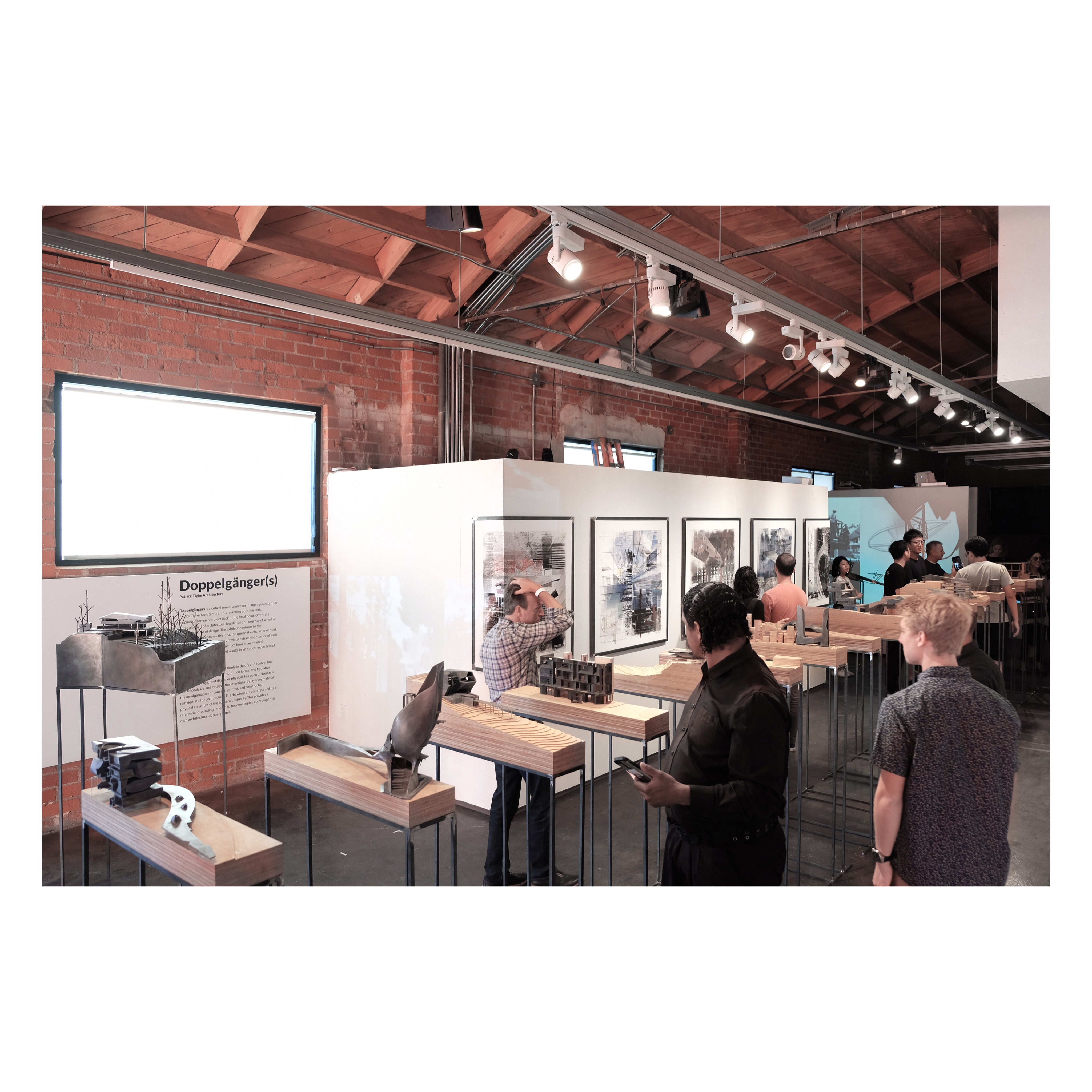 Opening of Exhibition at Museum in 2018.